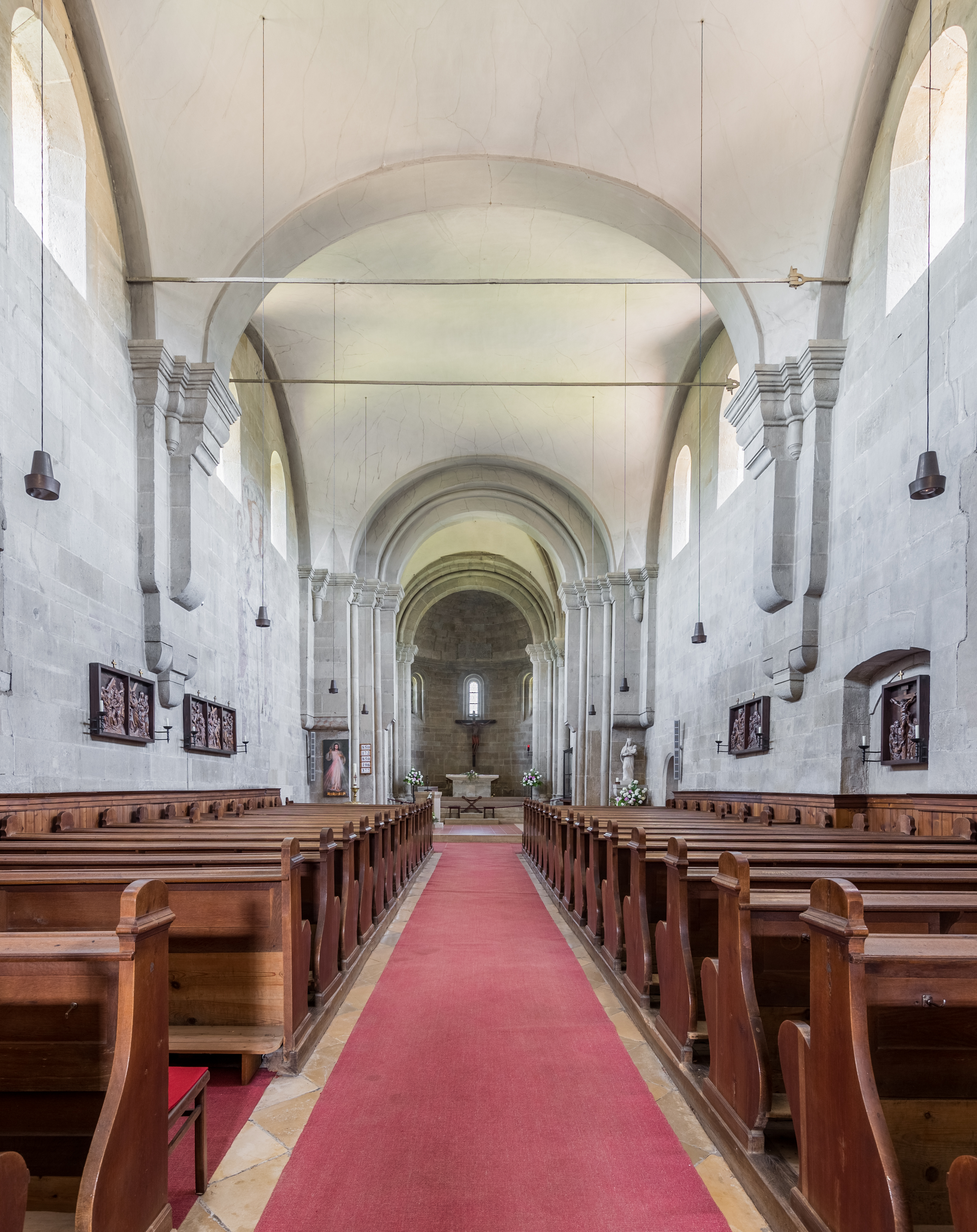 Internal view of the parish church Schöngrabern, Weinviertel, Lower Austria